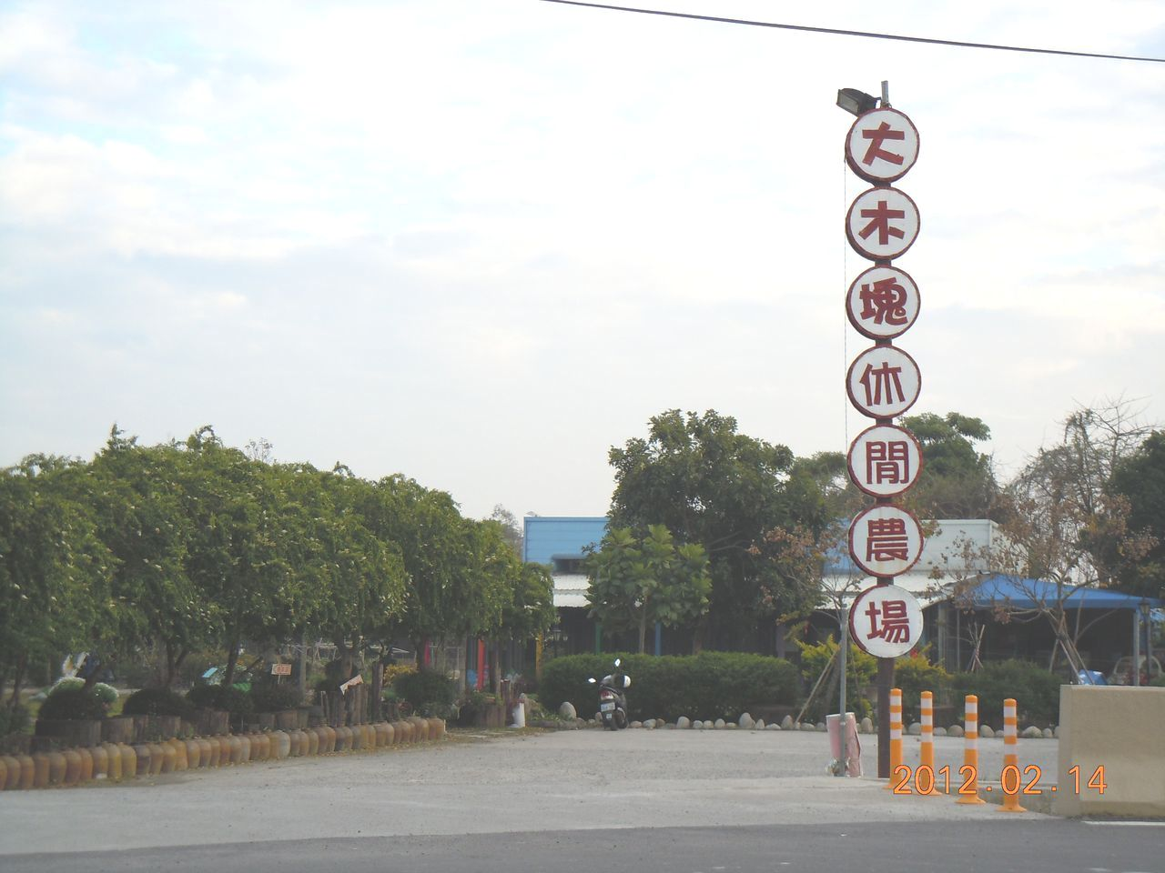 Big Wood Farm, Tanzi District, Taichung.中文（台灣）: 位在臺中市潭子區東寶里大木塊休閒農場。